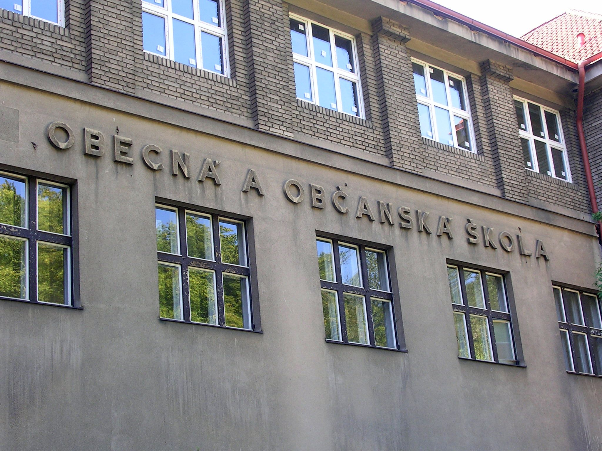 Křivoklát, Rakovník District, Central Bohemian Region, the Czech Republic. A school.